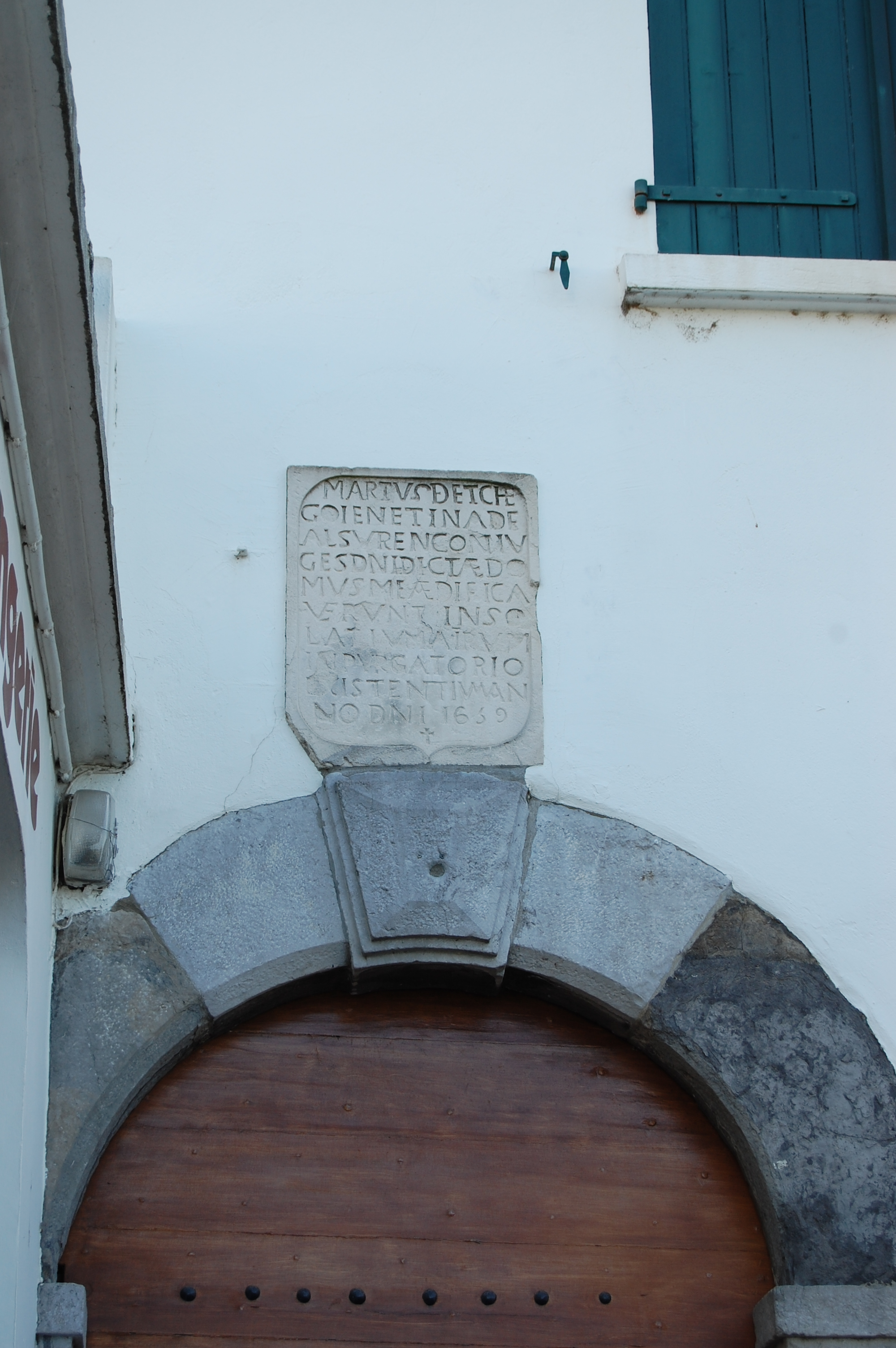 Atalburu in Ossès